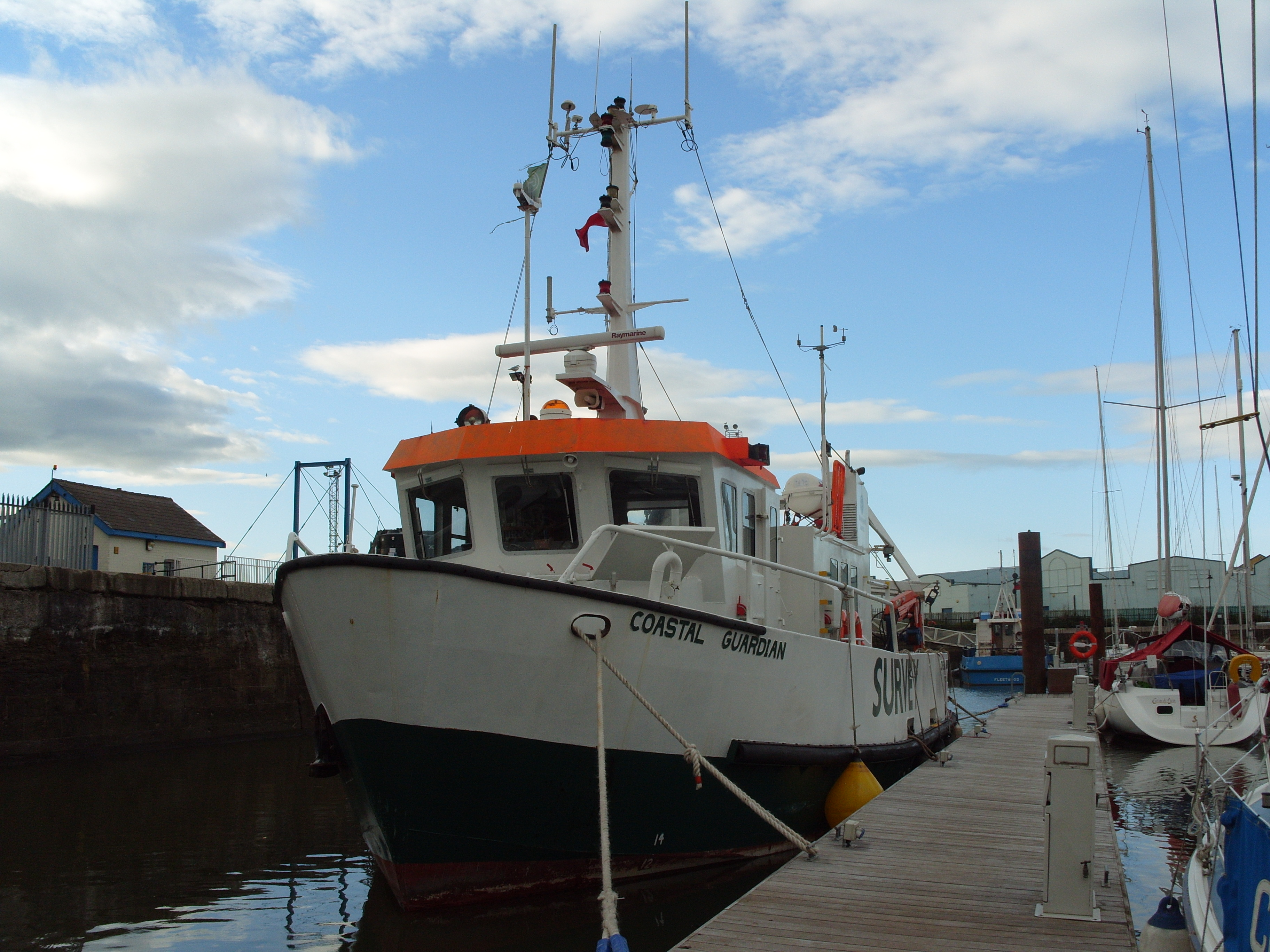 Coastal Guardian in Fleetwood, Lancashire.